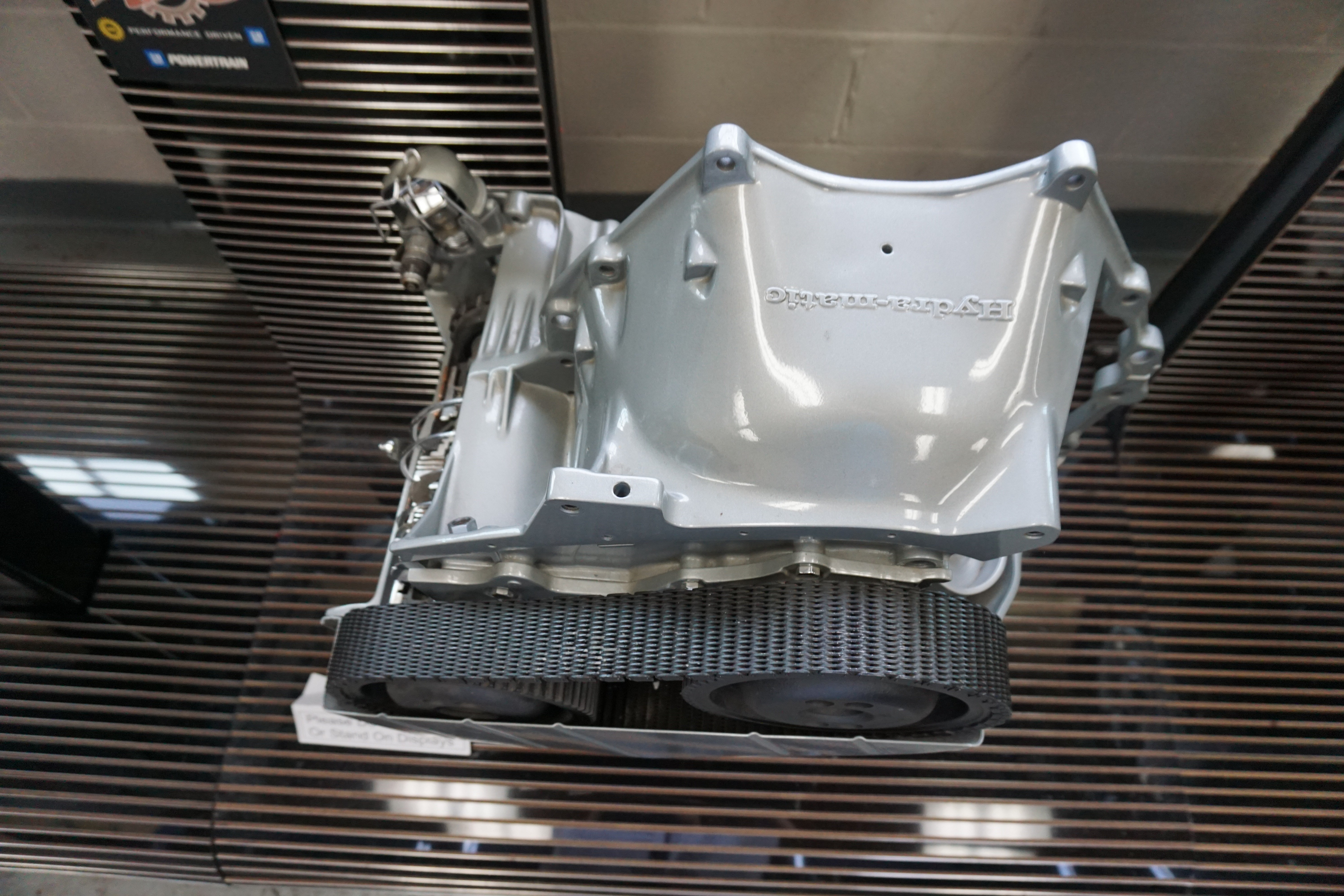 A 1965-78 THM 425 transmission at the Ypsilanti Automotive Heritage Museum in Ypsilanti, Michigan (United States).